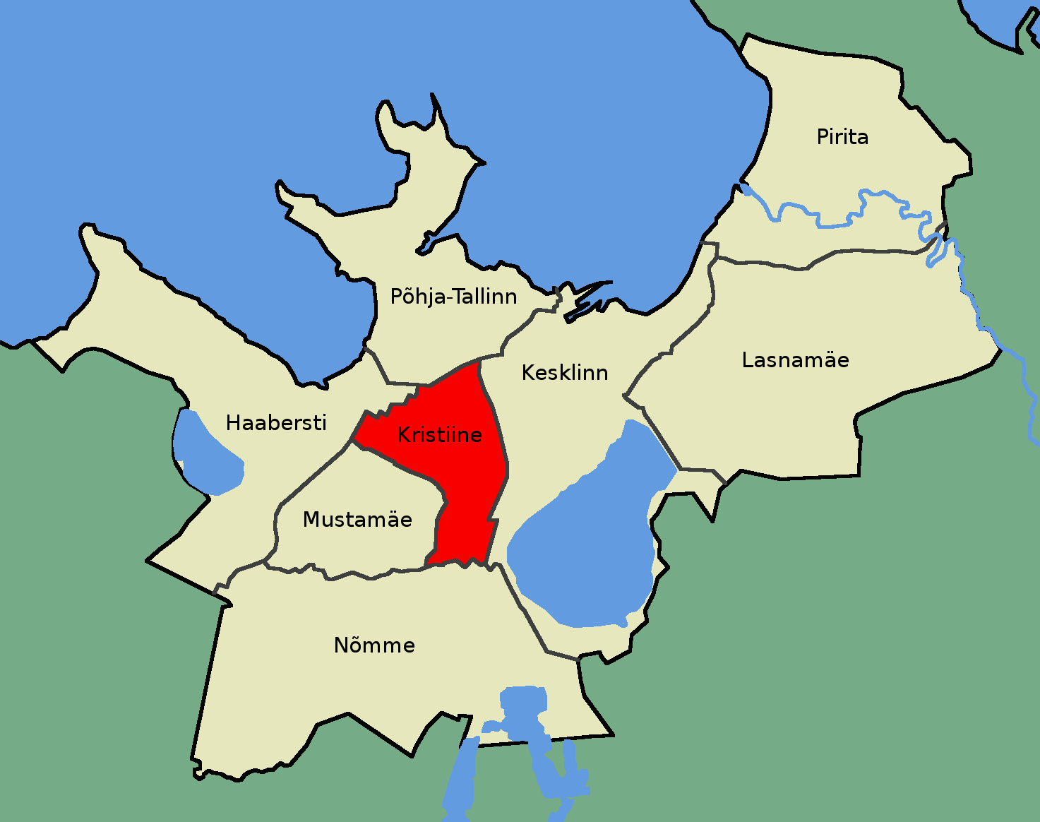 Tallinn (Estonia), the city district of Kristiine, with legend